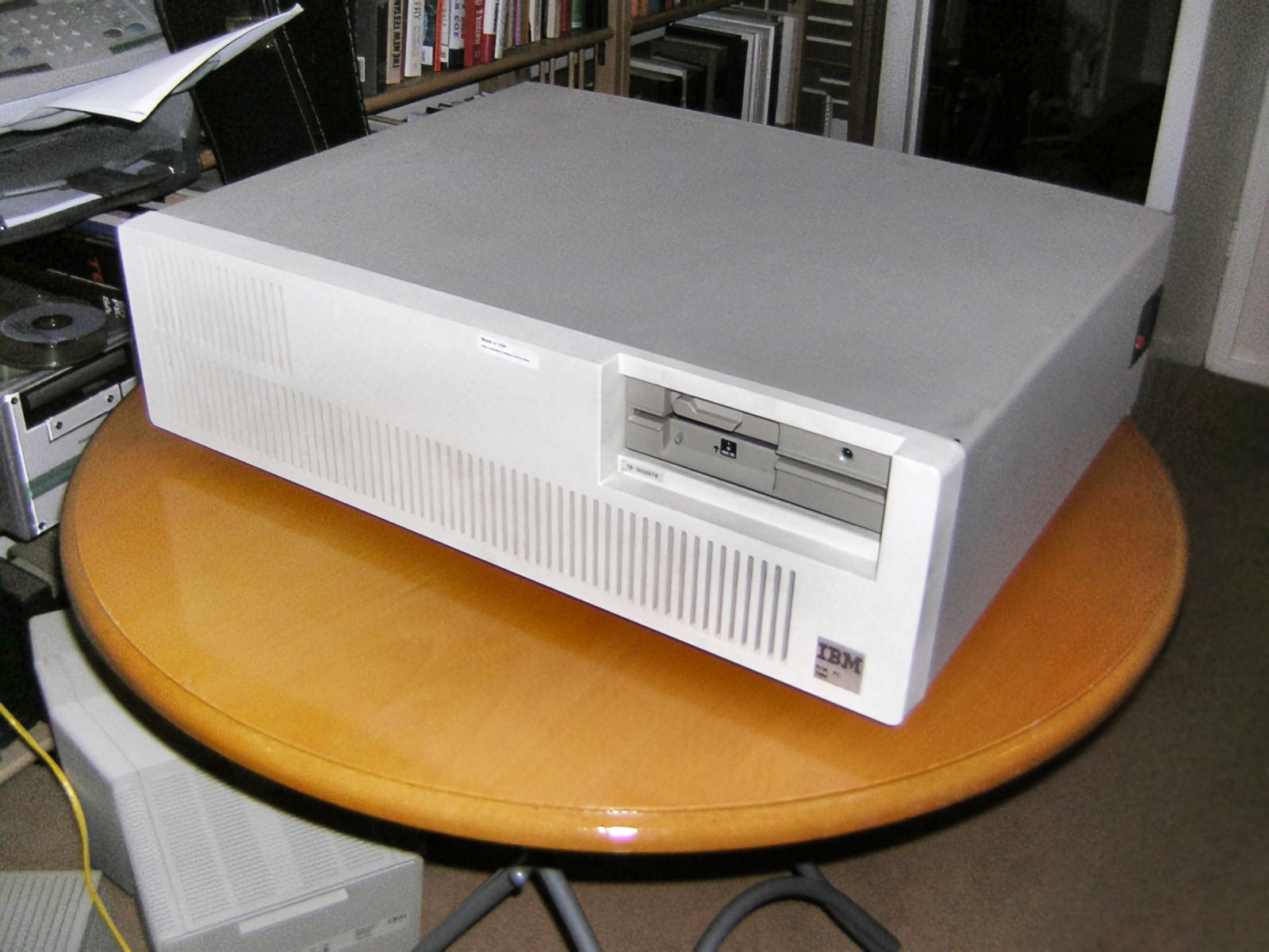 This is photograph of a System/36 Model 5364 (Baby 36).